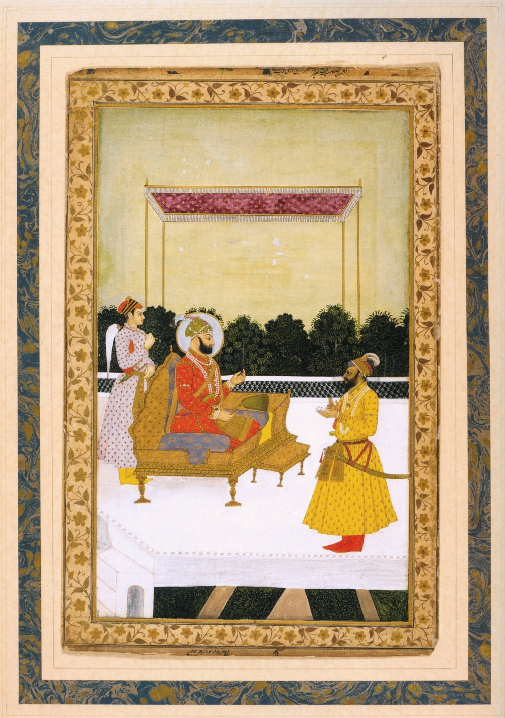 Mughal emperor Farrukhsiyar receiving Husain Ali.